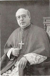 Segundo Bispo de Aveiro após Diocese Restaurada